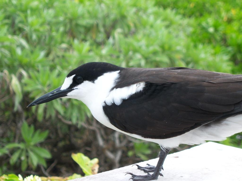 A sooty tern perching on a board at Bird Island, Seychelles, home to more than 1 million sooty terns at its peak.